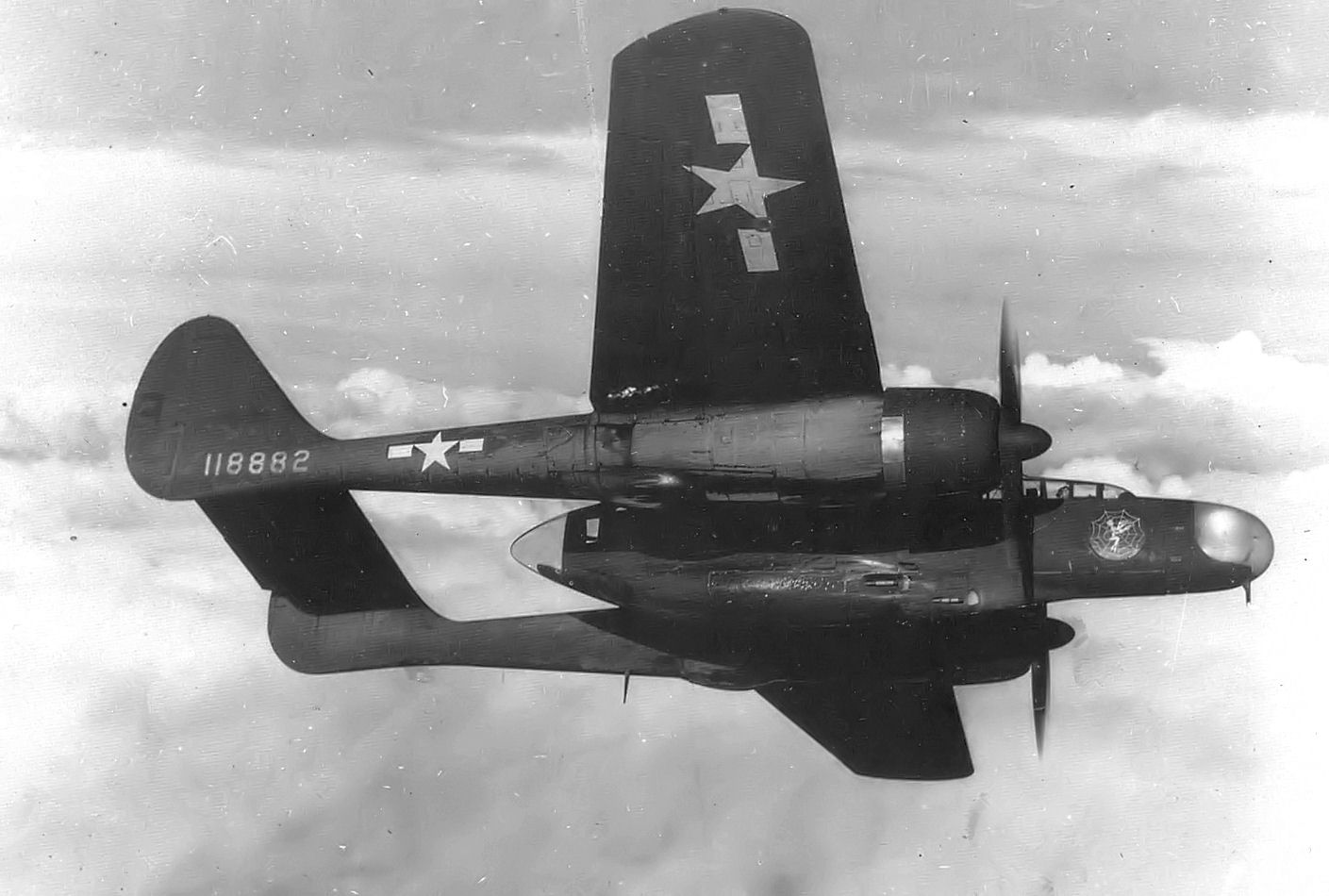 YP-61 Black Widow. The antenna of the radar set, either a SCR-520 or SCR-720, can be seen in the partially transparent nose.